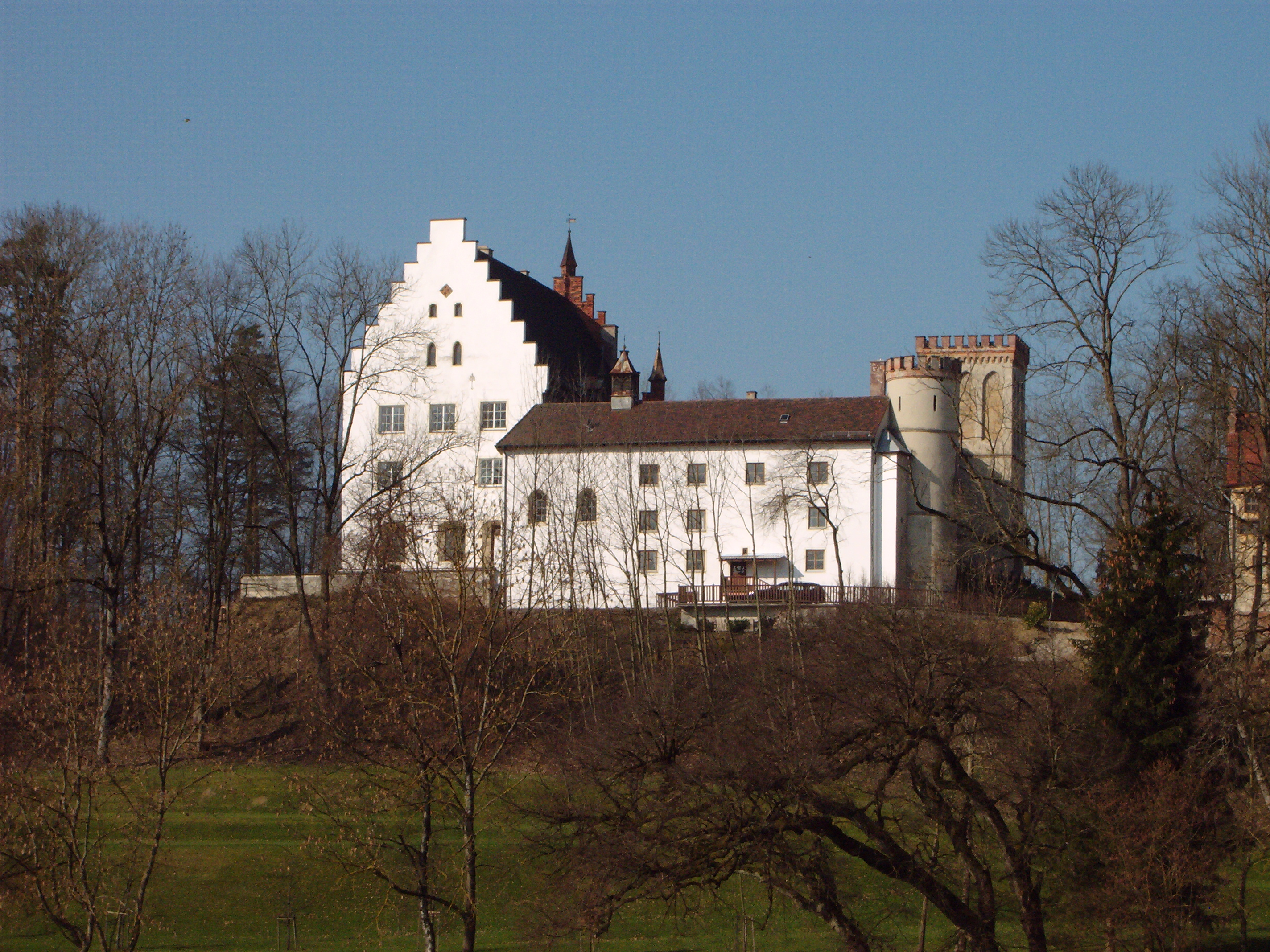 Igling, Castle Igling